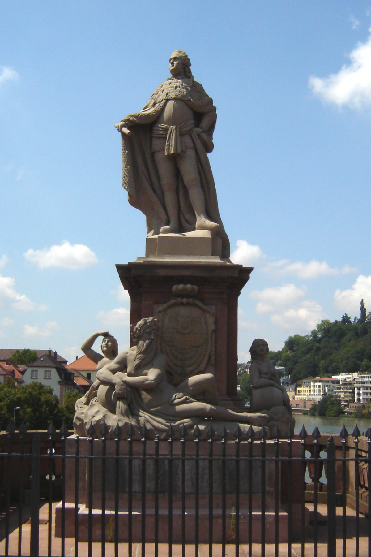 Statue of Prince Elector Charles Theodore on the Old Bridge (Alte Brücke) of Heidelberg, Germany. Carl Linck, 1788.